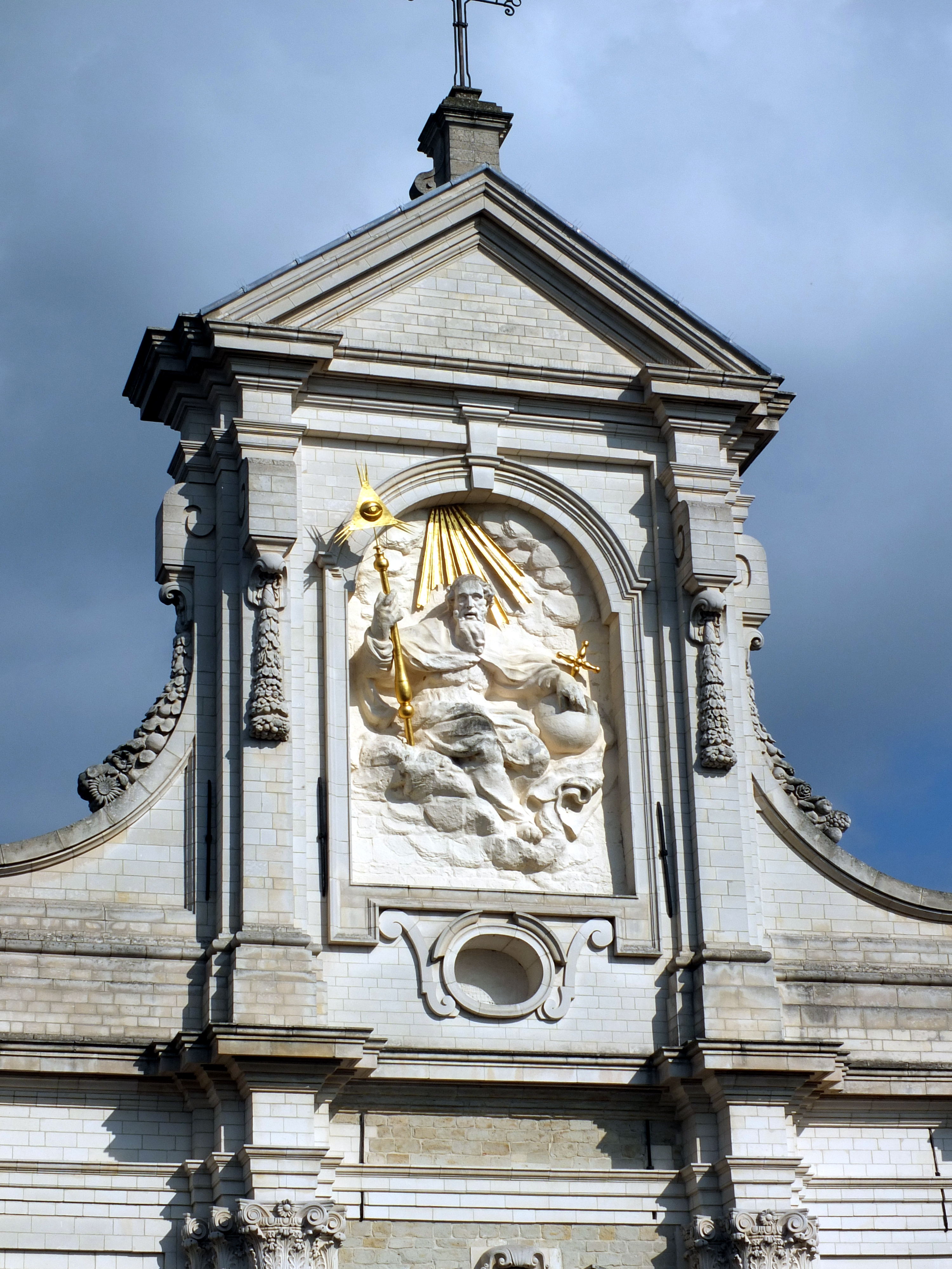 The facade of Begijnhofkerk (Sint-Alexius-en-Catharinakerk) in Mechelen, Belgium. The relief God the Father (1646-1647) is ascribed to Lucas Faydherbe .